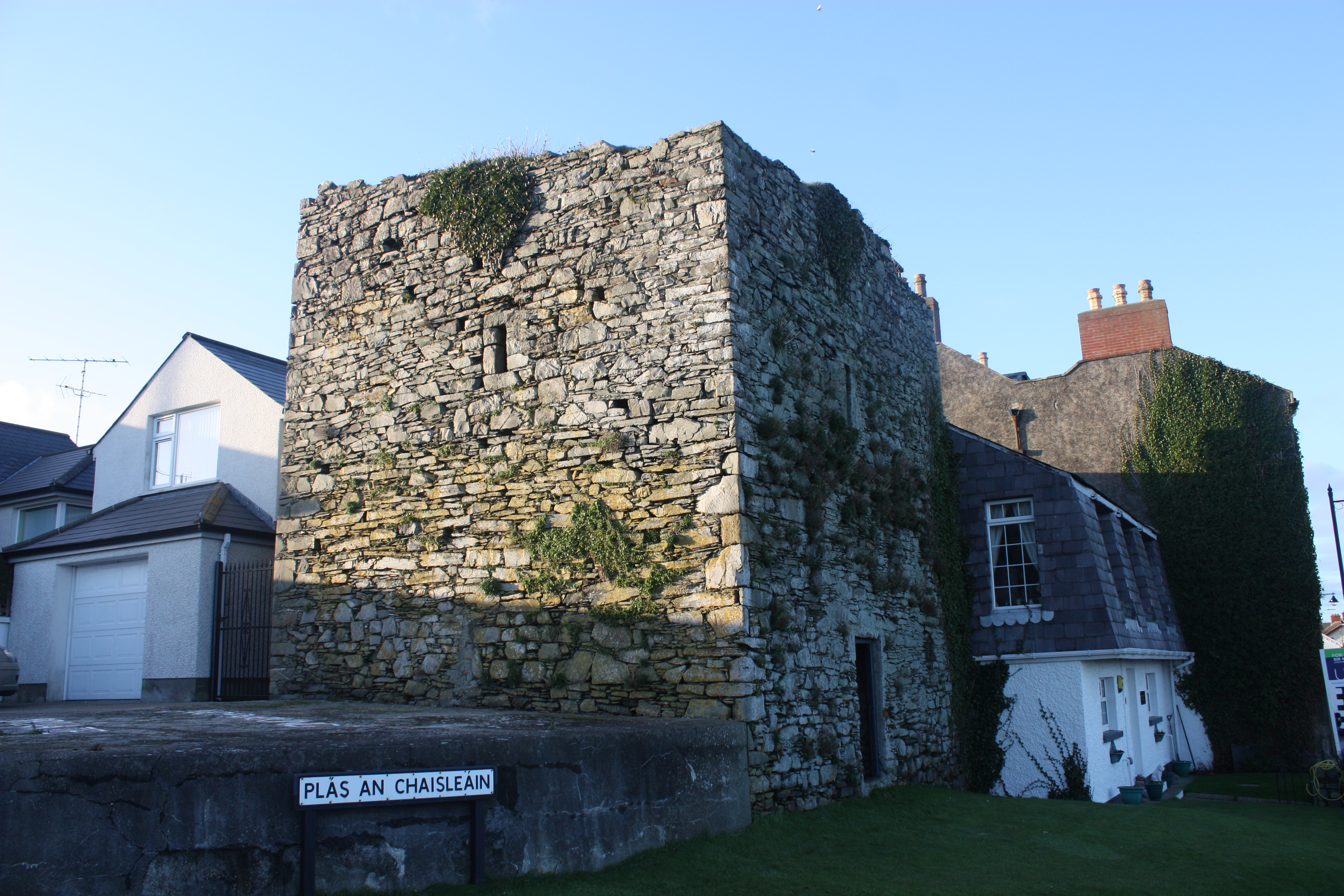 Margaret's Castle, Castle Place, Ardglass, County Down, Northern Ireland, November 2010